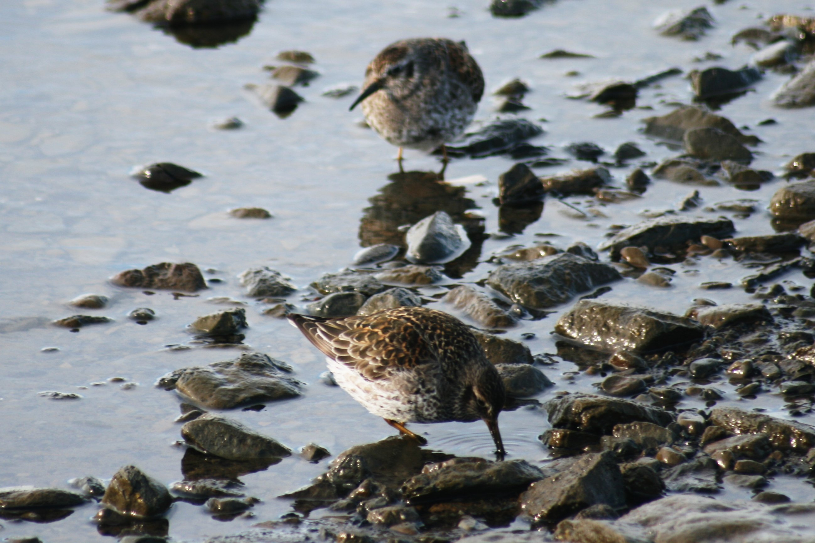 Purple Sandpiper near Longyearbyen, Svalbard, May 2008